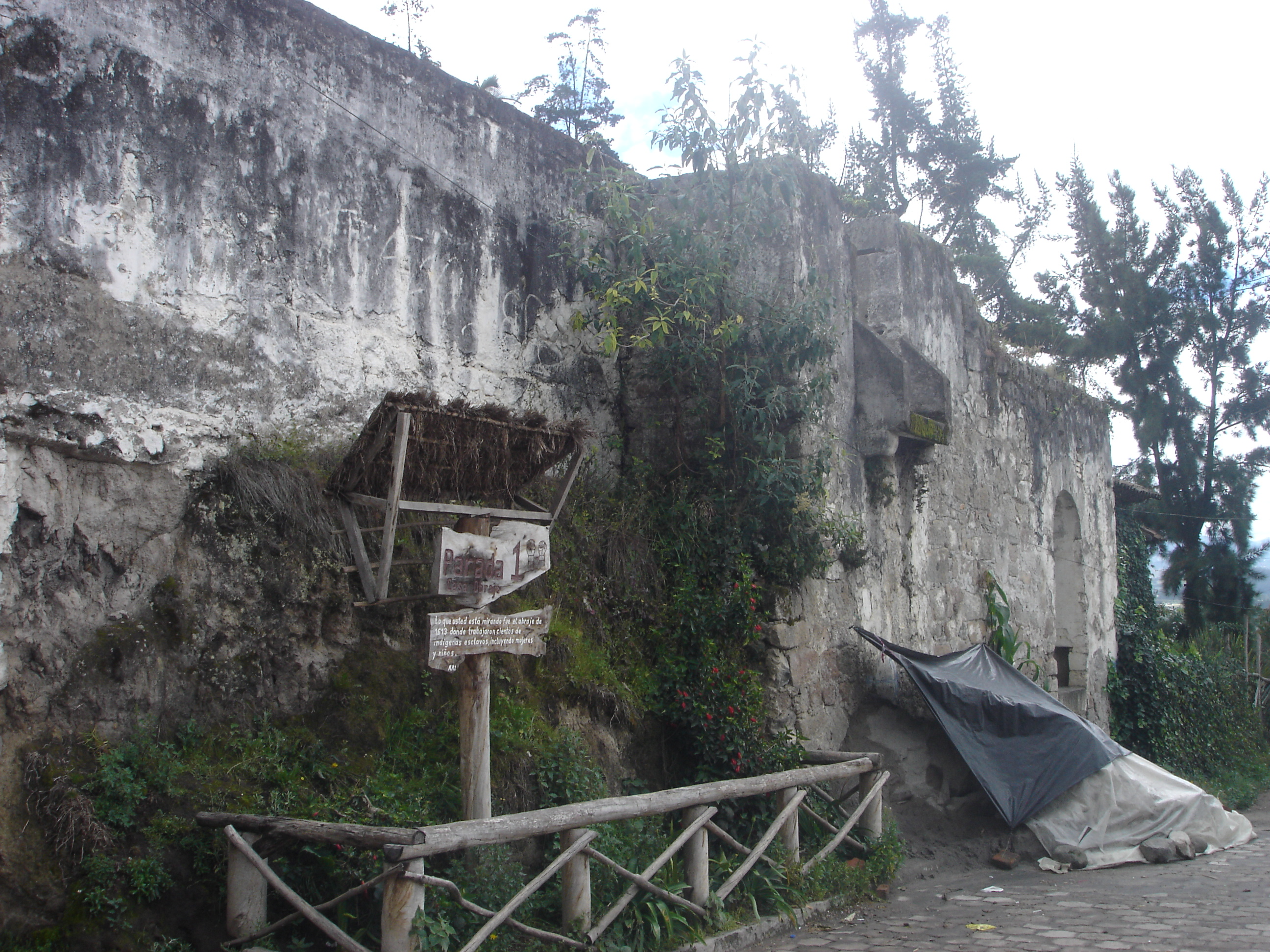 Remaining wall of the Obraje (colonial textile factory based on forced work by indigenas)of Peguche, near Otavalo.